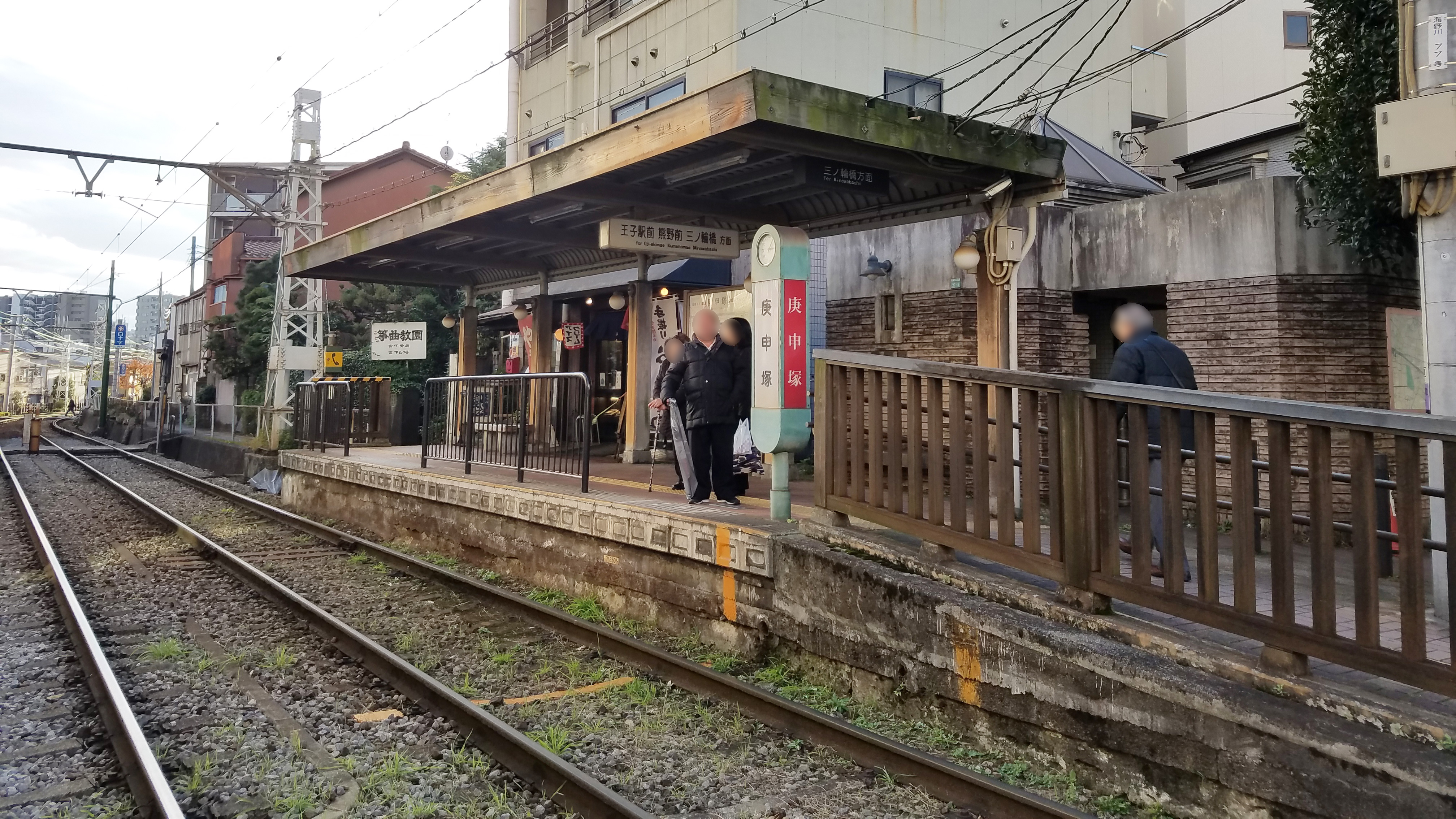 The Minowabashi-bound platform at Kōshinzuka Station on the Toden Arakawa Line(Tokyo Sakura Tram) in Toshima city, Tokyo, Japan